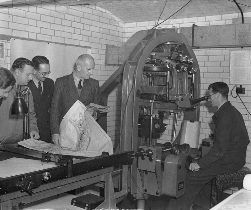 Royal Air Force- Central Interpretation Unit / Allied Central Interpretation Unit, 1941-1945. Flight Lieutenant H H Williams demonstrates the Wild A5 'Stereo-autograph' plotting machine to press visitors at Medmenham, Buckinghamshire. A vital piece of photogrammetric equipment, the Wild A5 produced accurate maps from stereoscopic pairs of photographs, and was in constant use at the CIU and ACIU throughout the war.